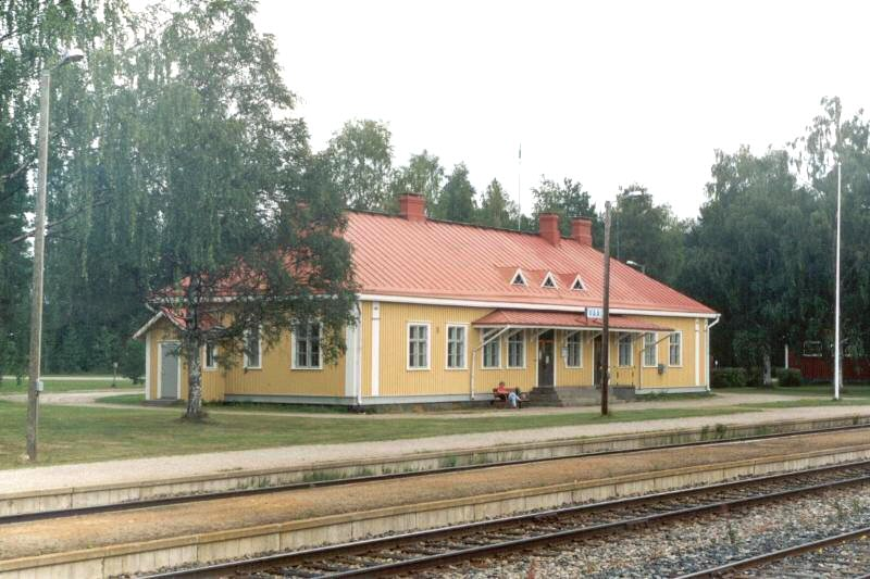 Vaala railway station, Finland. Vaala is the midway point of the Oulu–Kontiomäki line.